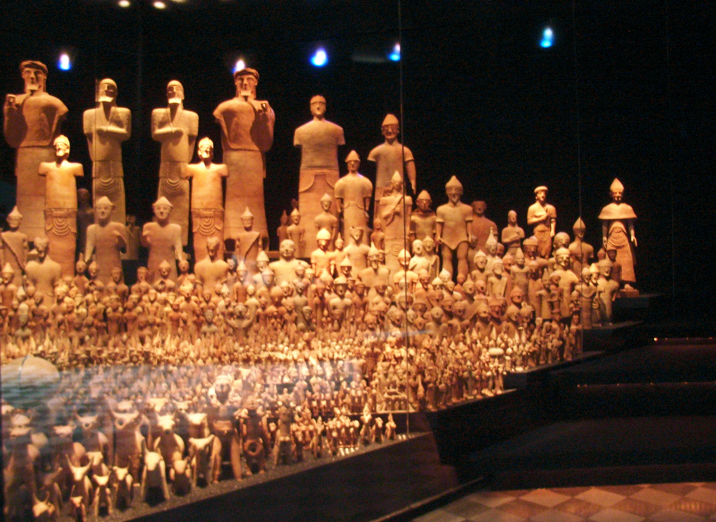 Exhibit of Mediterranean Antiquities This is a photo of an artwork at the Mediterranean Museum in Sweden with the identifier: A.I. 2072+2075